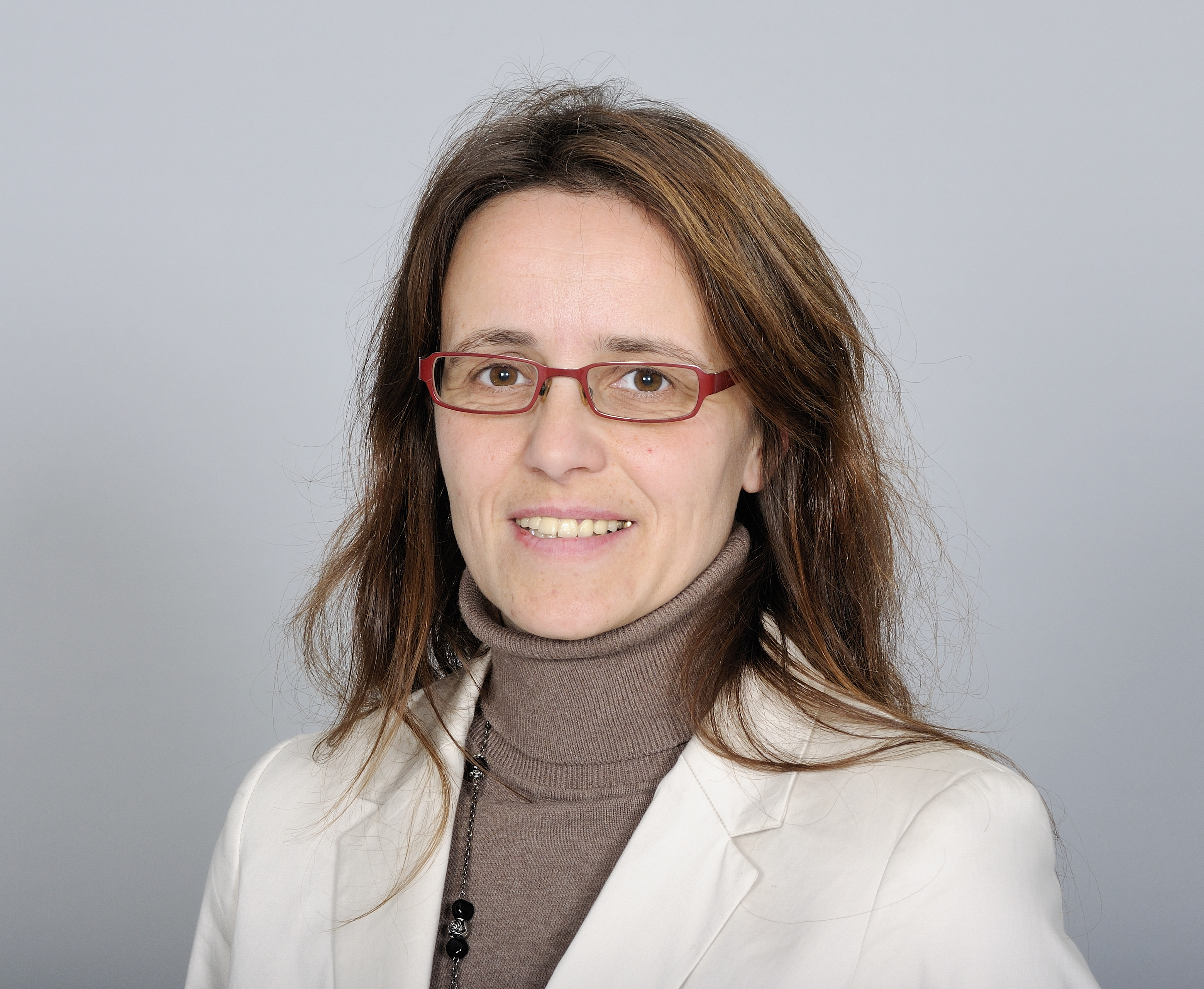 Dagmar Neukirch, Saxon politician (SPD) and member of the Landtag of the Free State of Saxony (as of 2013).